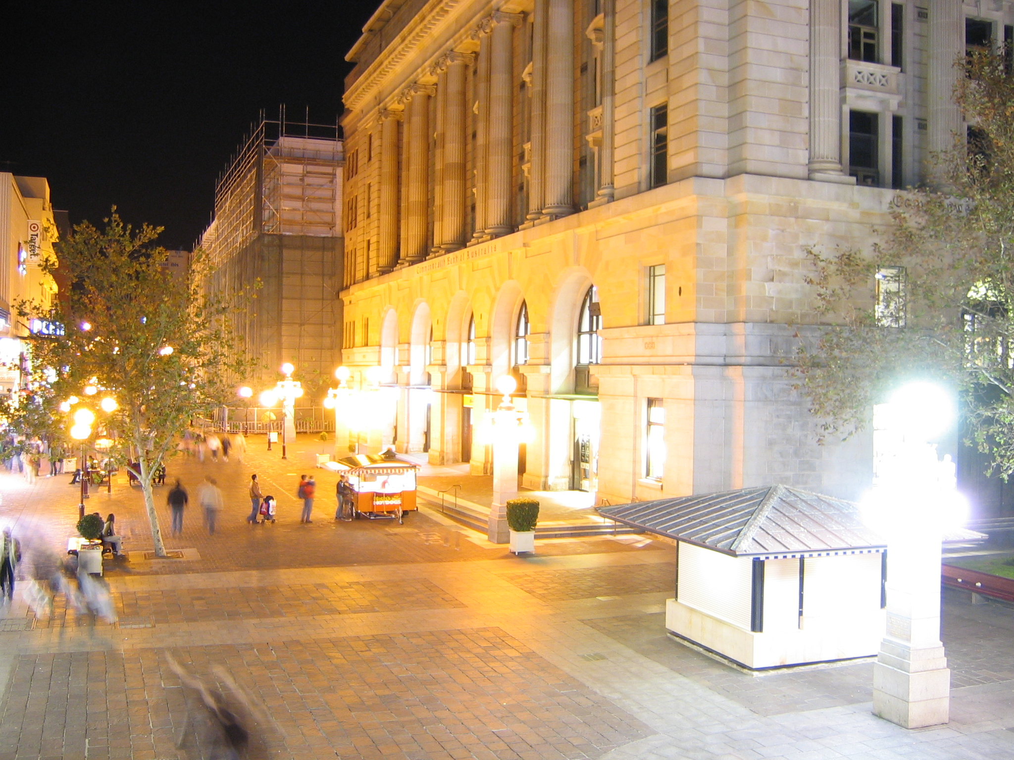 Commonwealth Bank building in the Murray Street mall, corner of Forrest Place, Perth, Western Australia.